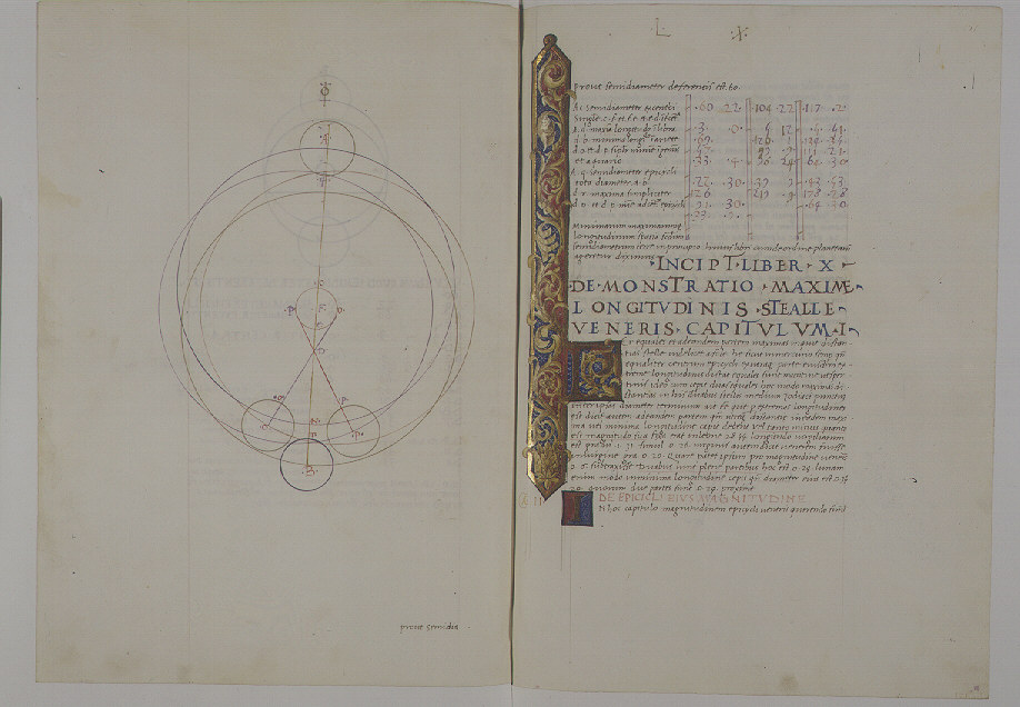 Photograph of a page from George of Trebizond's Commentary on the Almagest Book X, on the left, is a model of the planet Mercury, showing its closest approach to the earth; on the right, is information about Mercury including distances distances, followed by the beginning of his treatment of the planet Venus.